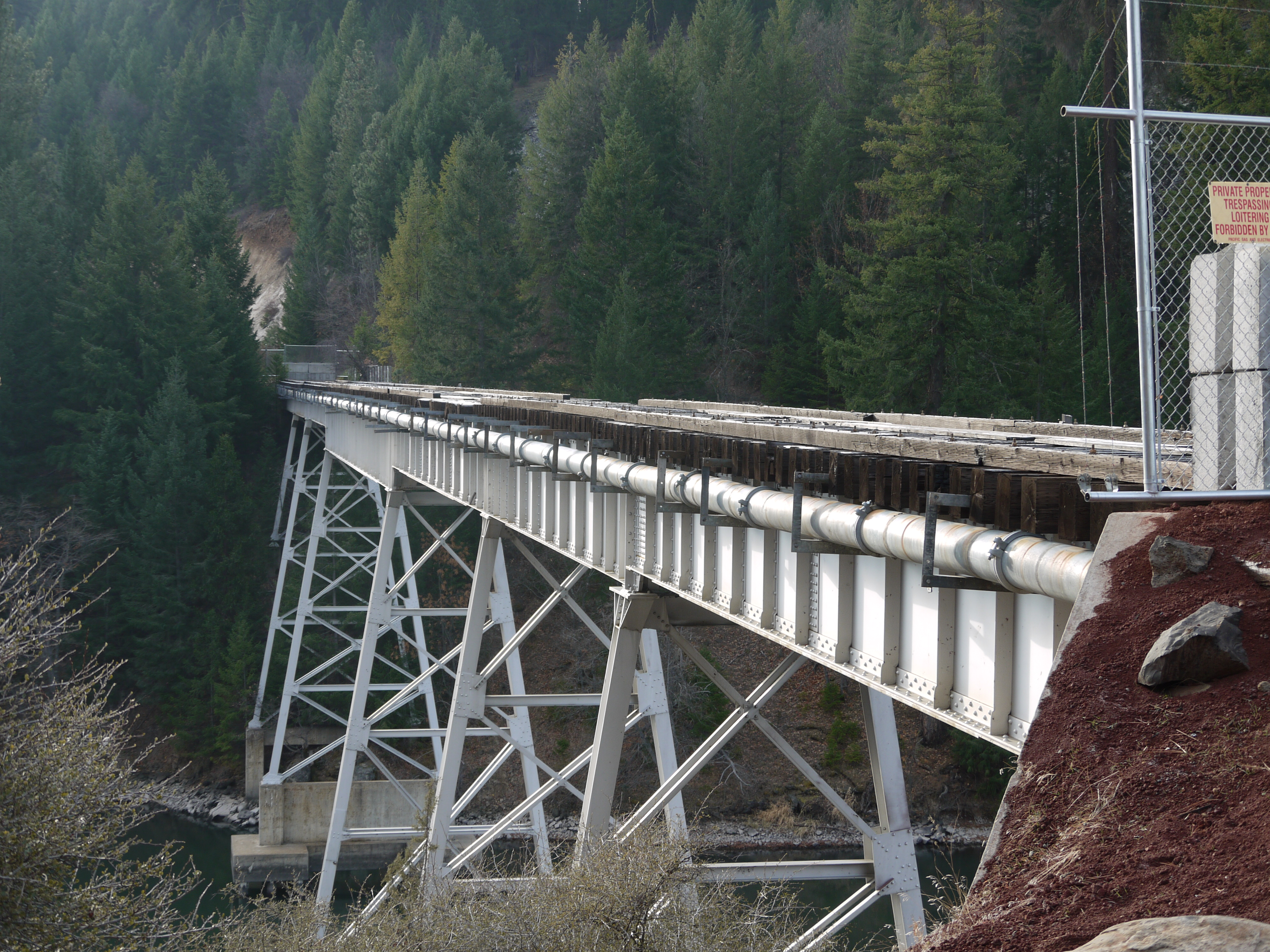 The "Stand By Me" bridge at Lake Britton